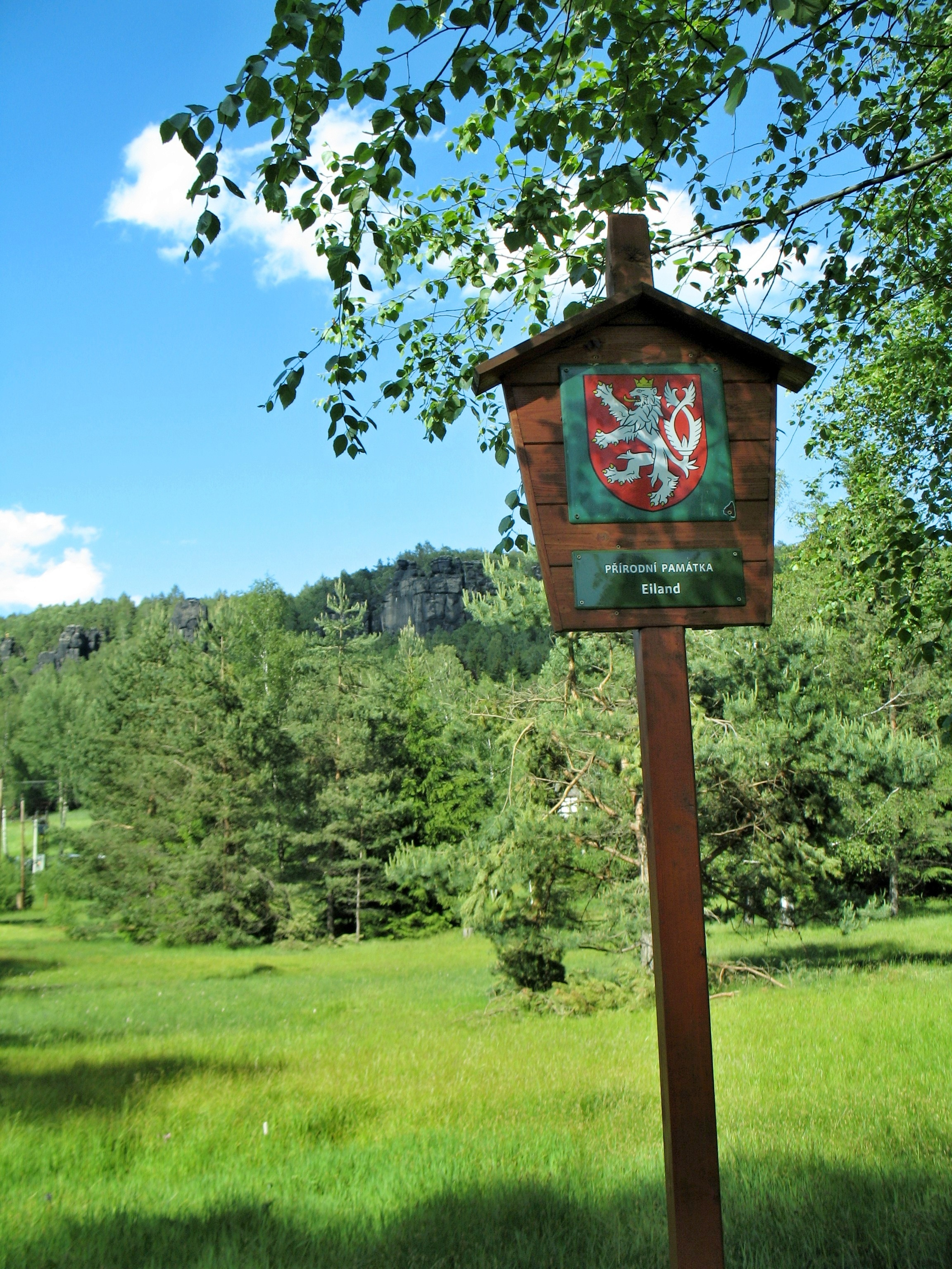 Southern part of natiral monument Eiland in Ostrov (Tisá), Northern Bohemia, Czech Republic